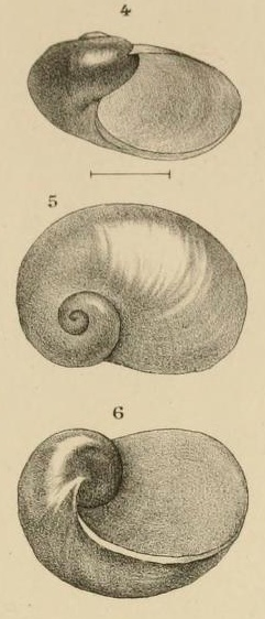 Three views of a shell labelled as Vitrina demissa Pollonera from Eritrea. From Biodiversity-Heritage-Library scan of Pollonera, C. (1898). "Molluschi terrestri e fluviatili dell'Eritrea raccolti dal Generale Di Boccard". Bollettino dei Musei di Zoologia ed Anatomia Comparata della Reale Università di Torino 13 (313): 1–13 + 1 pl. The figure caption appears on page 13 ( The plate was drawn by the author Carlo Pollonera, a renowned Italian artist as well as a malacologist.